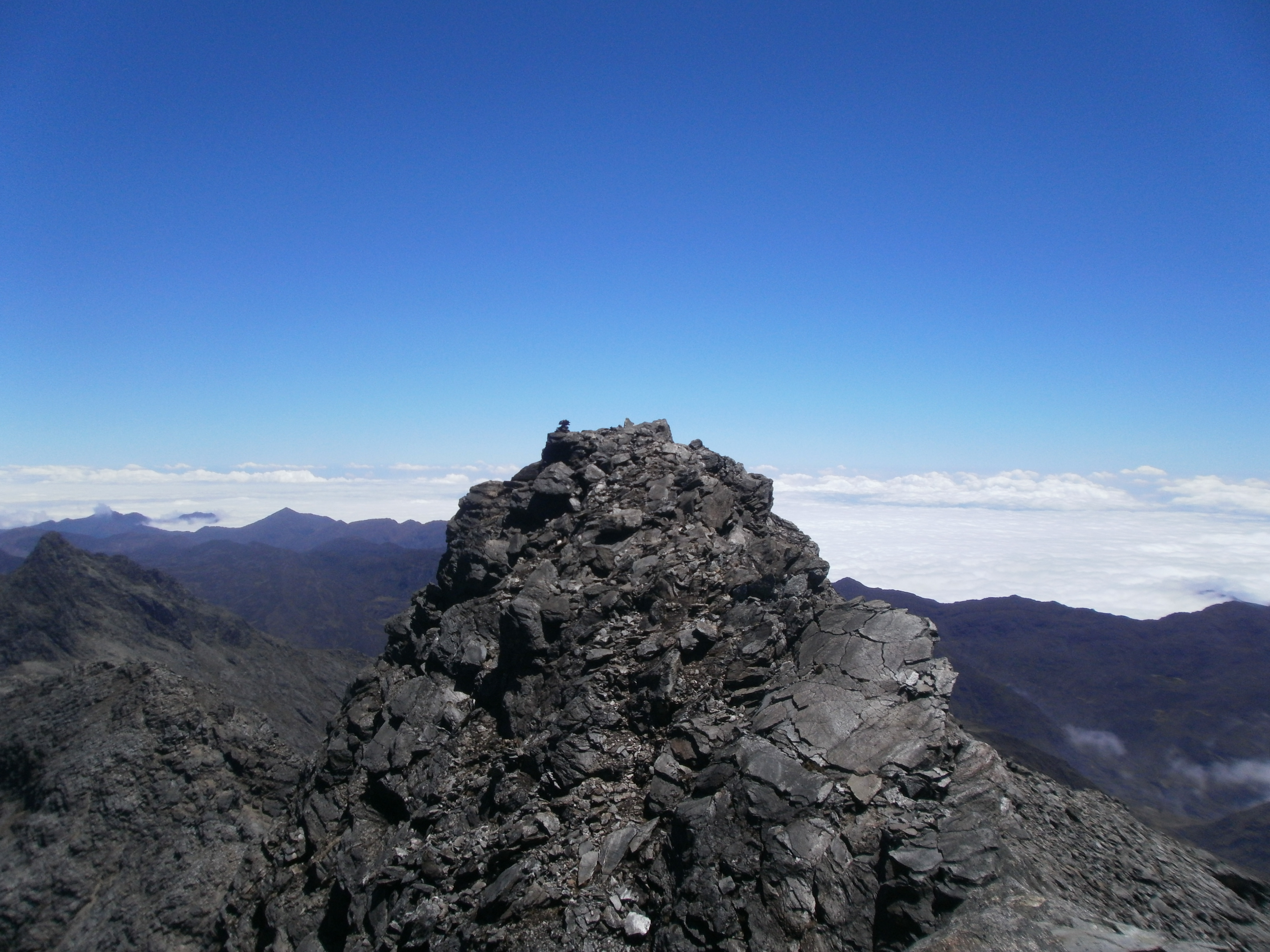 Merida